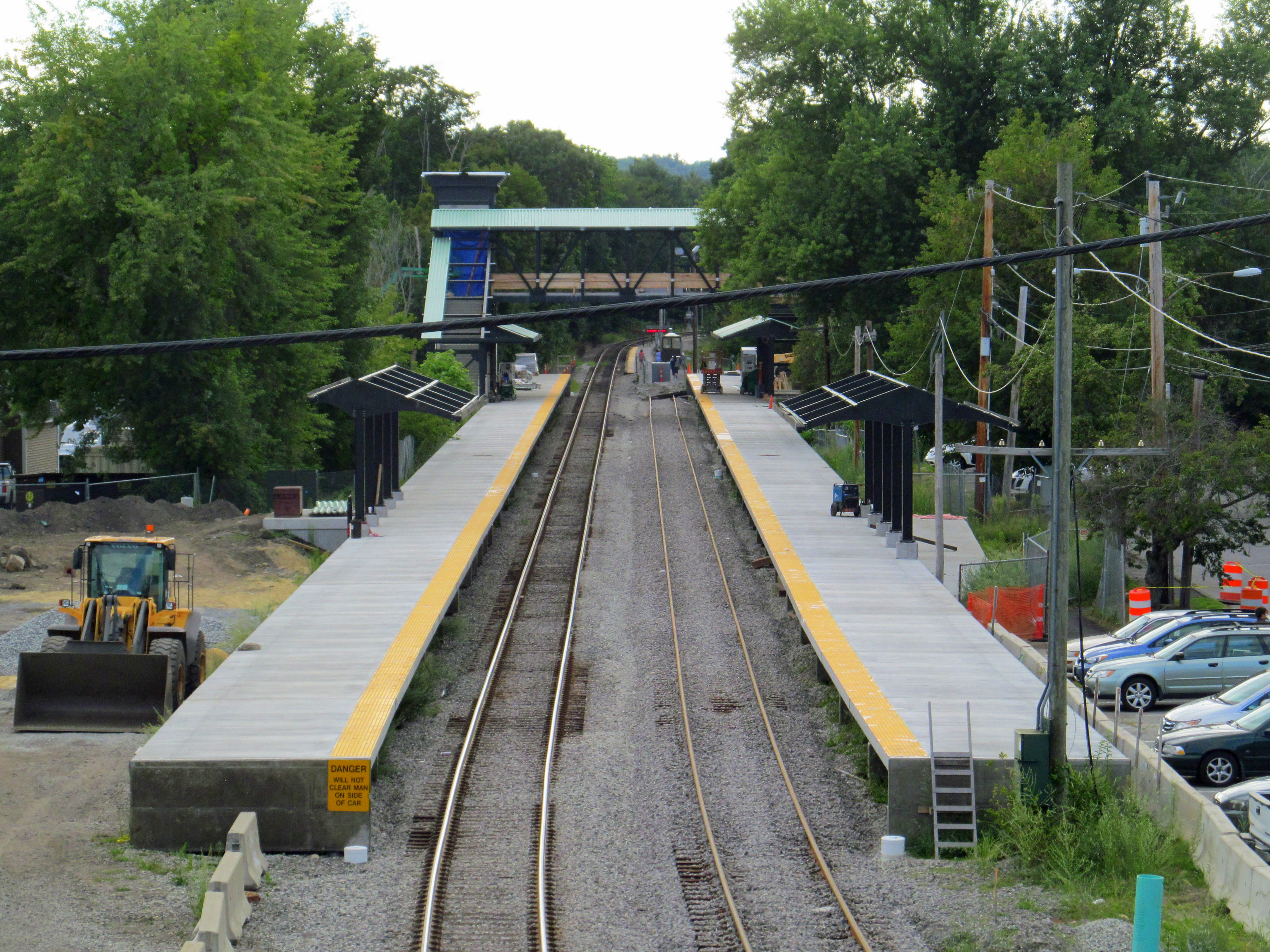 The rebuilt South Acton station under construction in August 2015, as viewed from the Main Street bridge